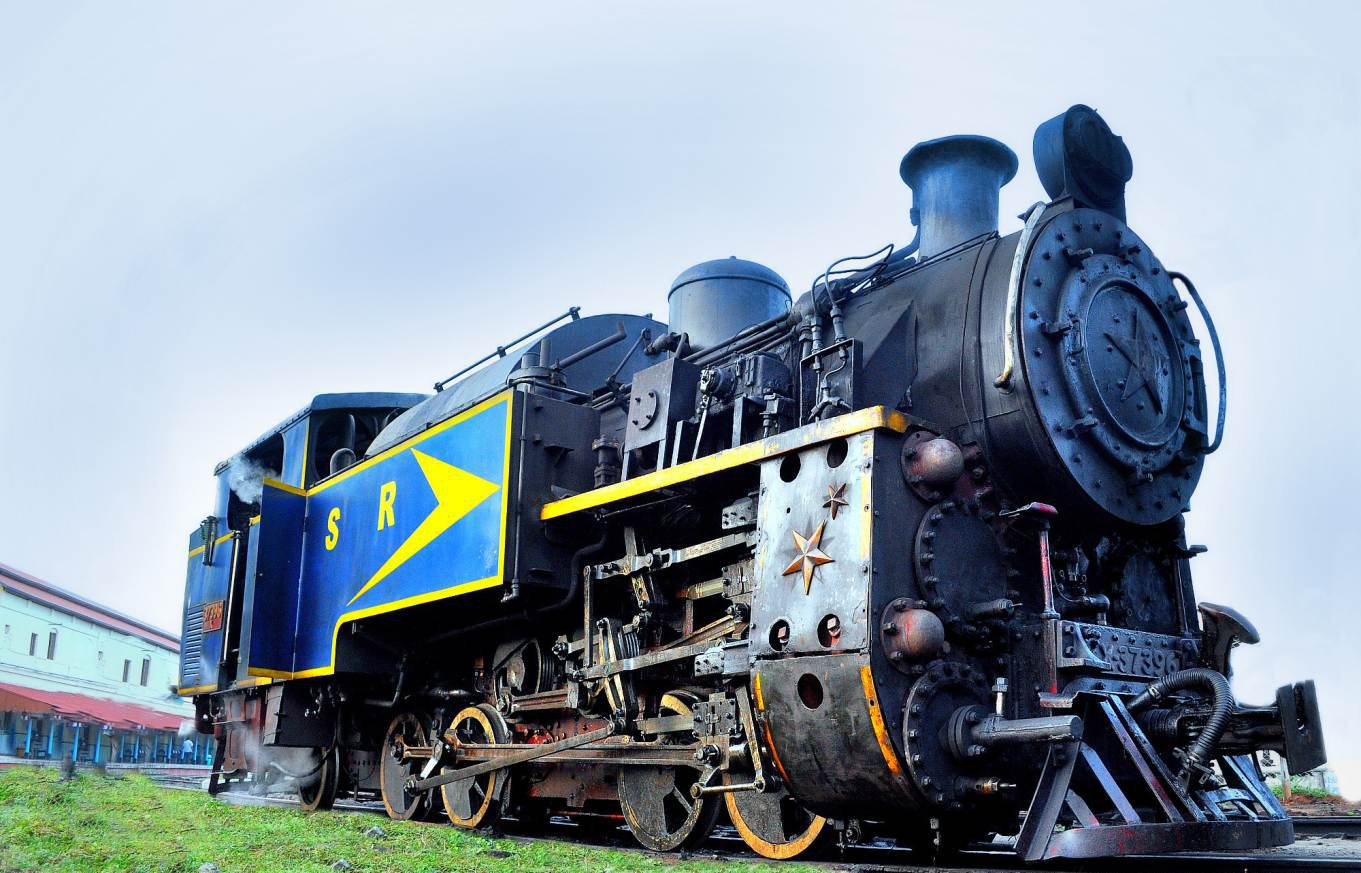 This nilgiri mountain steam locomotive is a world heritage recognized mountain railway.